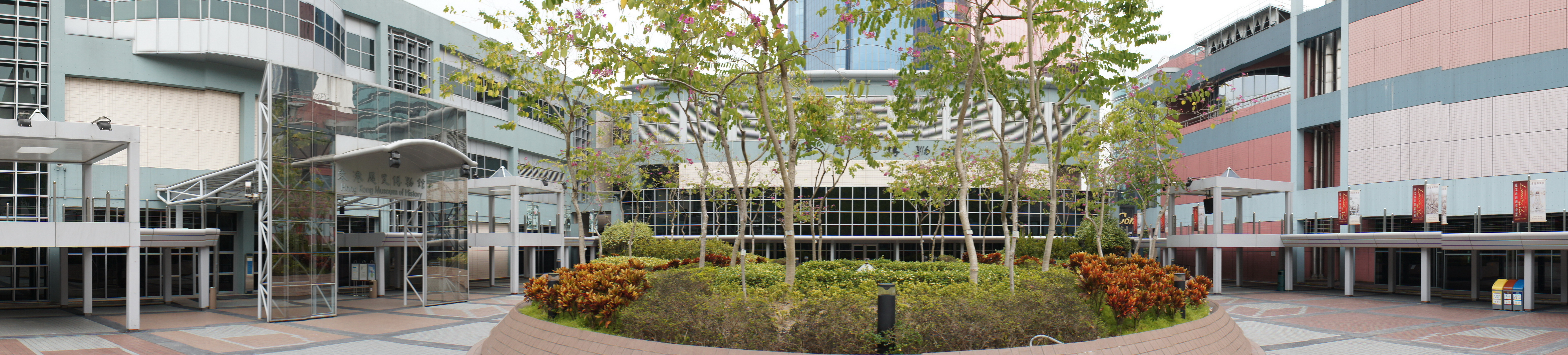 Panoramic of Hong Kong Museum of History and Hong Kong Science Museum.